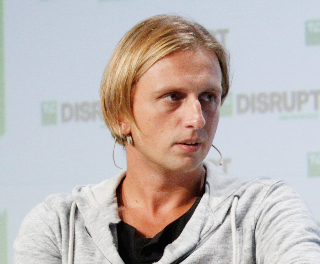 Revolut CEO Nikolay Storonsky (L) and moderator Mike Butcher speak onstage during Day 2 of TechCrunch Disrupt SF 2018 at Moscone Center on September 6, 2018 in San Francisco, California.